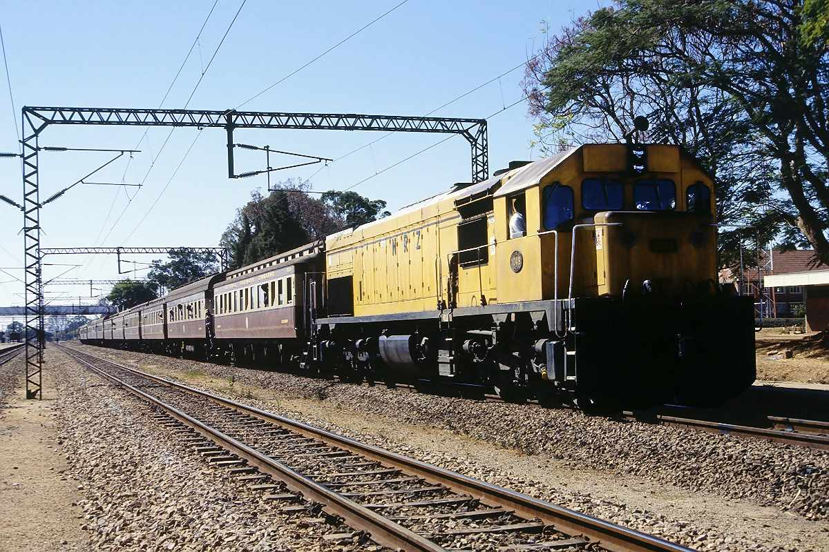 Gweru station: Diesel locomotive no 1049 (NRZ class DE10A, GMD model GT22LC-2), in front of train no 12 (Harare-Bulawayo) is waiting for the order of departure.